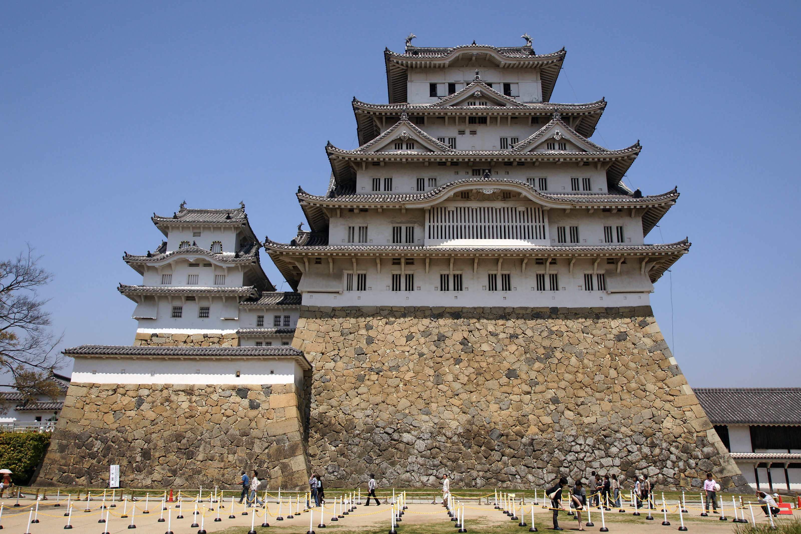 Himeji Castle, Himeji, Hyogo prefecture, Japan